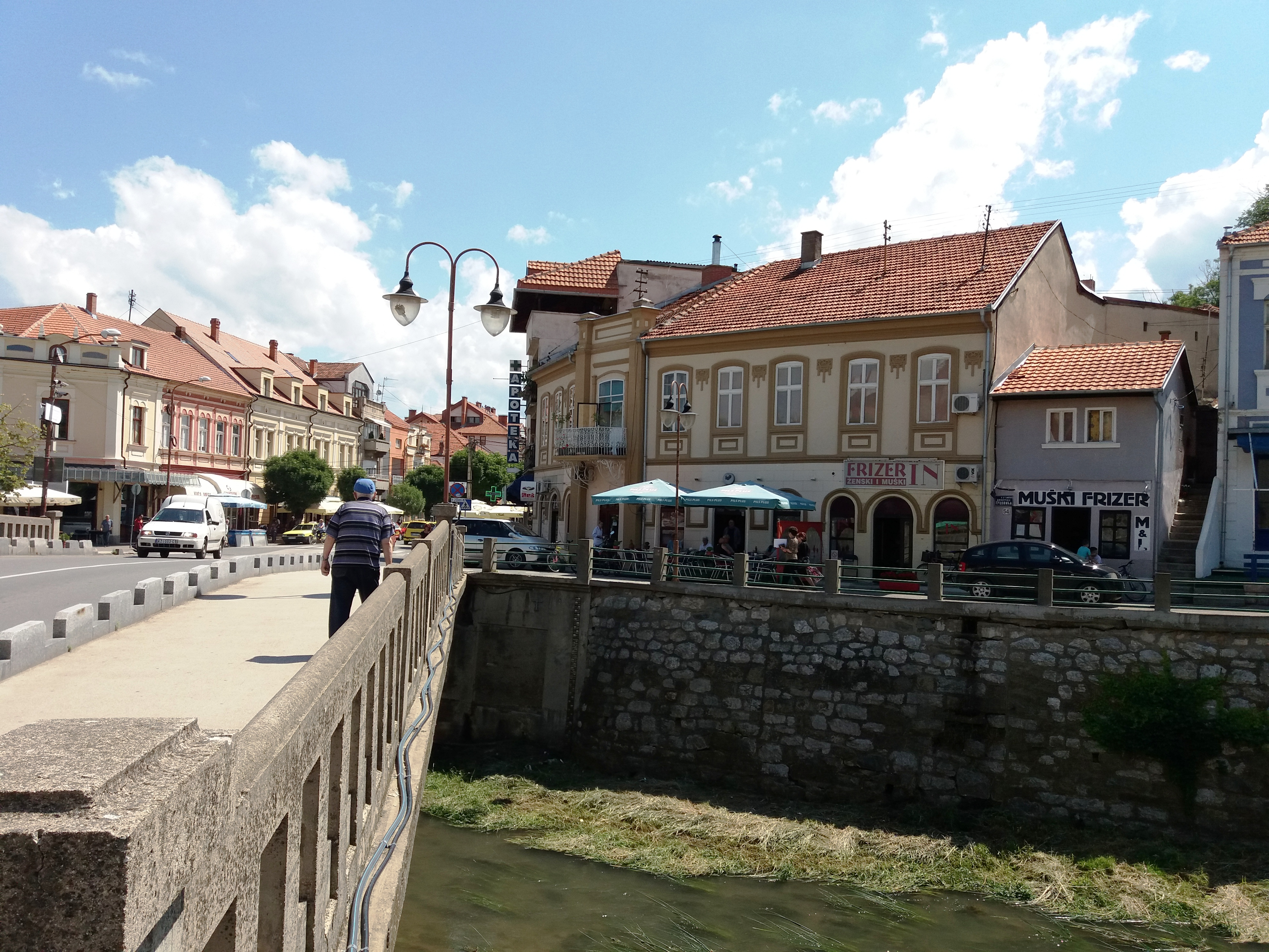 Old downtown in Knjaževac